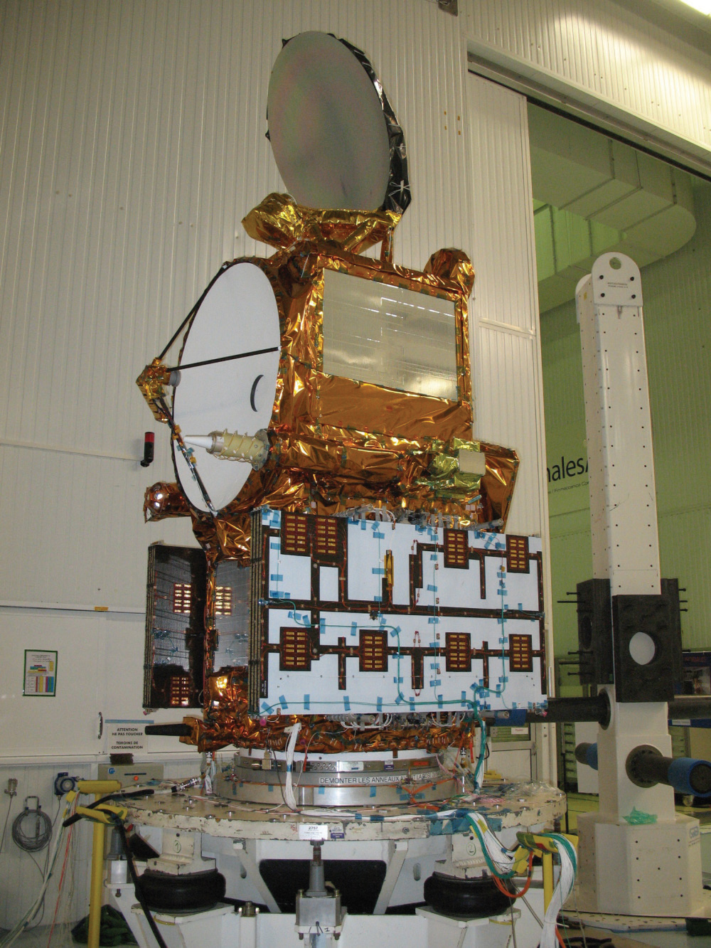 The OSTM/Jason-2 satellite